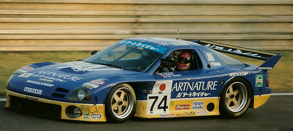 Team Artnature Car No.74 driving in the 1994 24 Hours of Le Mans